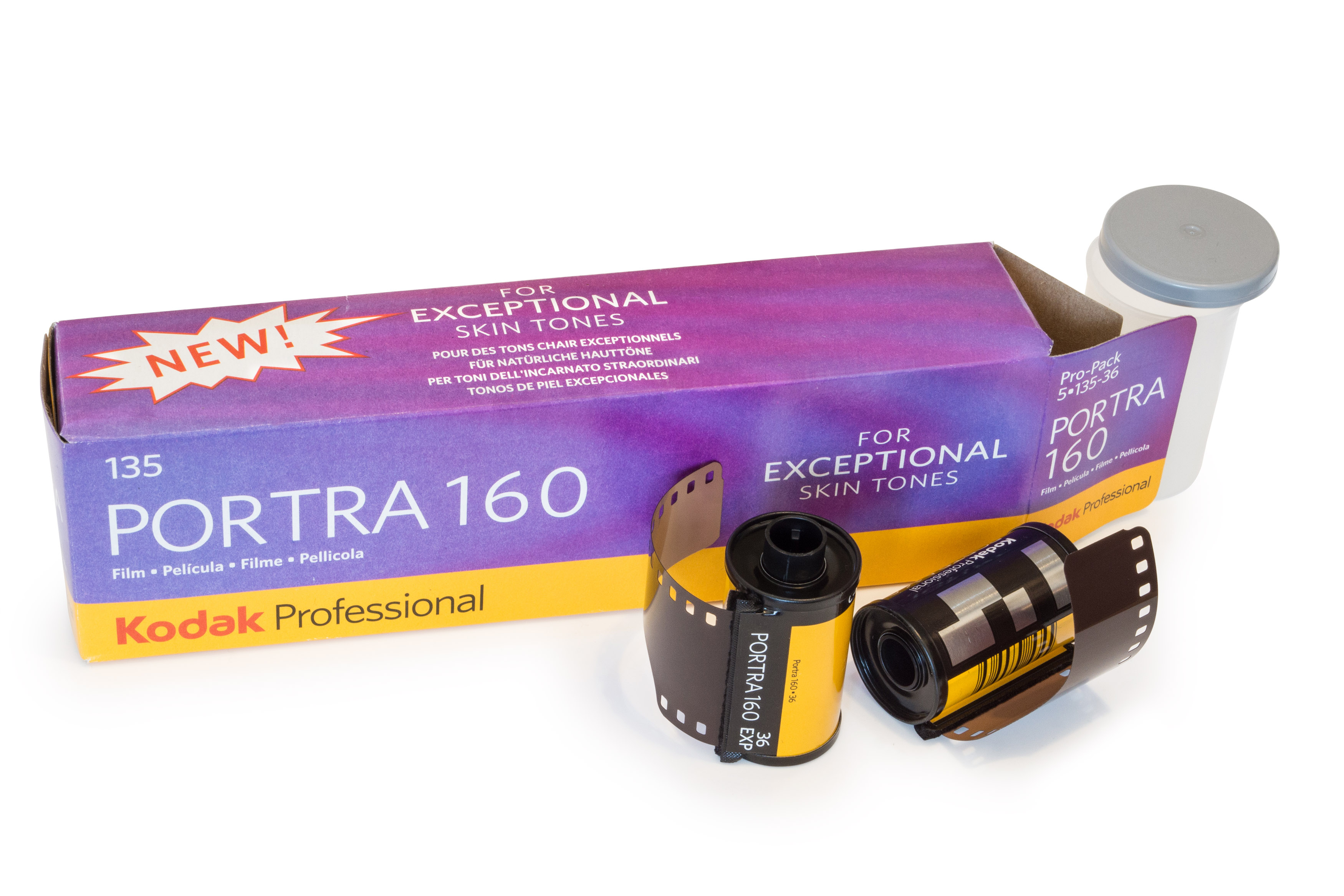 135 film Kodak Portra 160 ISO, 36 frames. 2 cassettes (front-right), 5-pack (background) and cassette holder (top-right). On right cassette you can clearly see DX encoding. Manufactured in 2011, best before 01/2014.